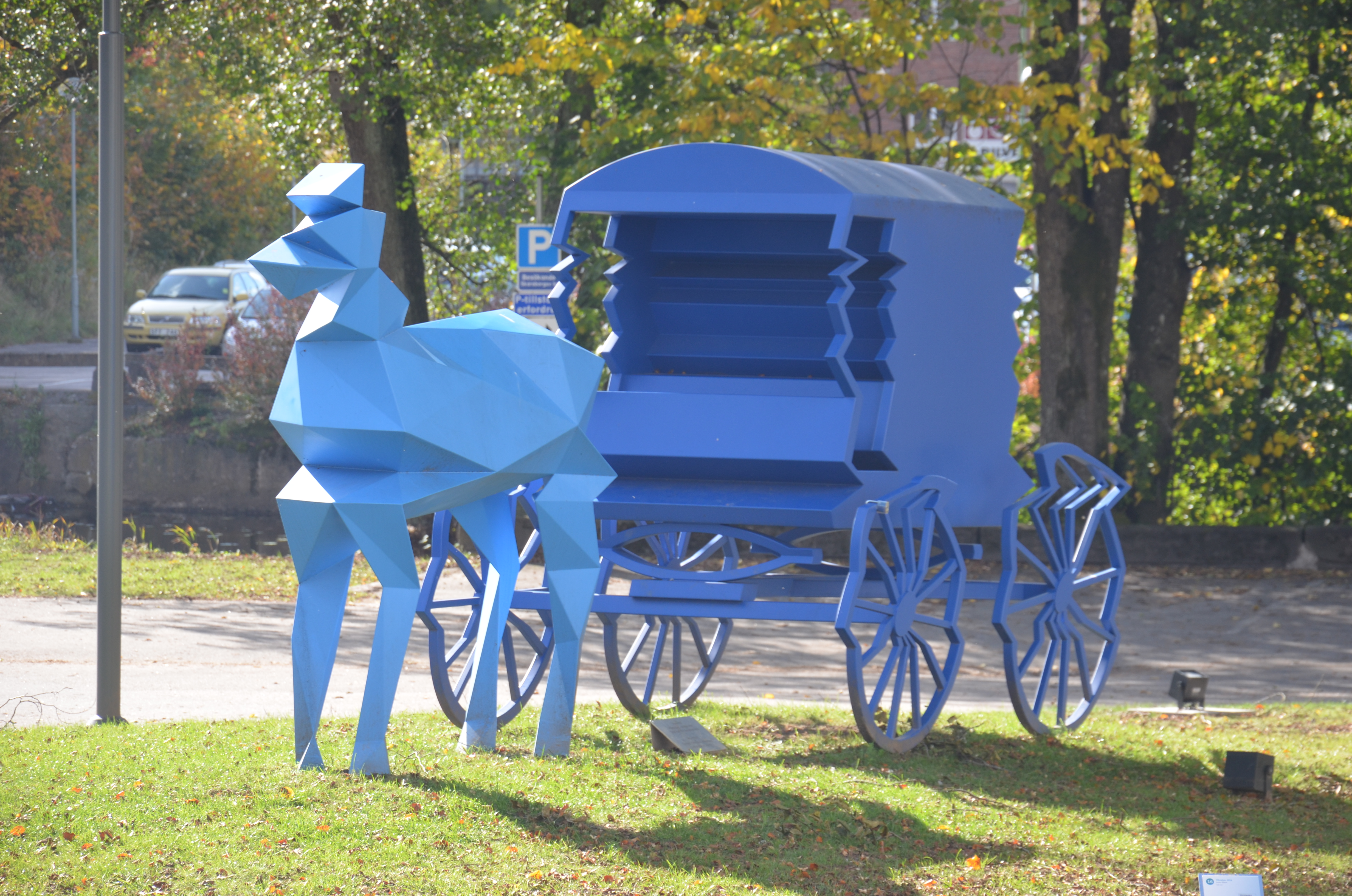 Vibration i blått (Vibration in blue) by Xavier Veilhan outside Textile Fashion Center in Borås, Sweden